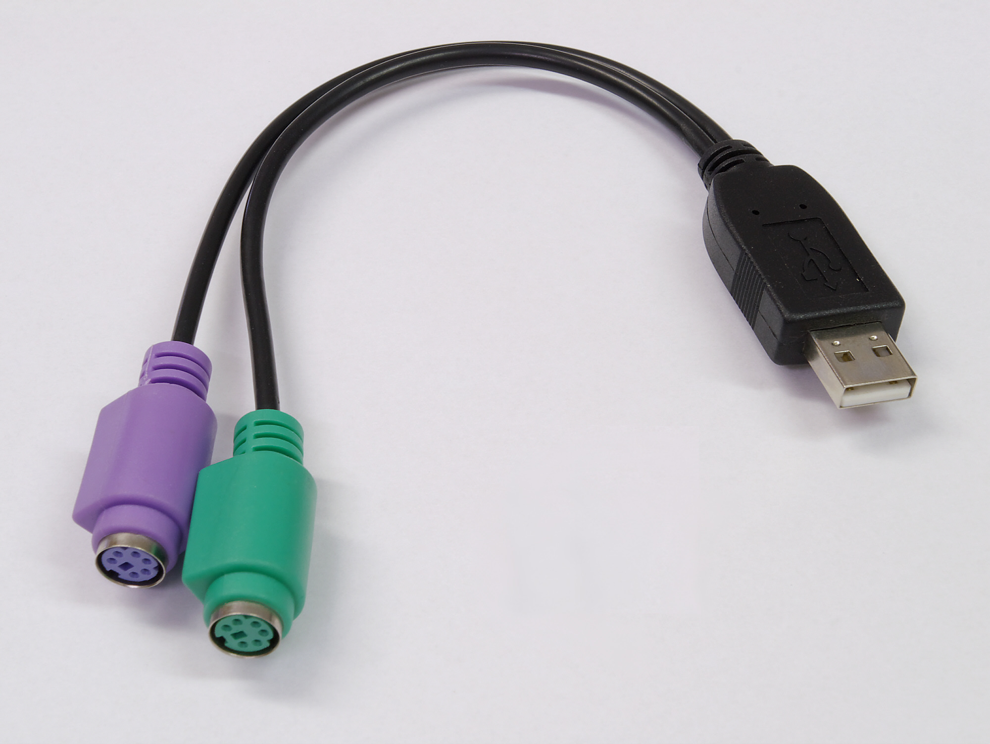 Adapter for connection of PS/2 peripherals (mouse and keyboard) to single USB-port, bus powered